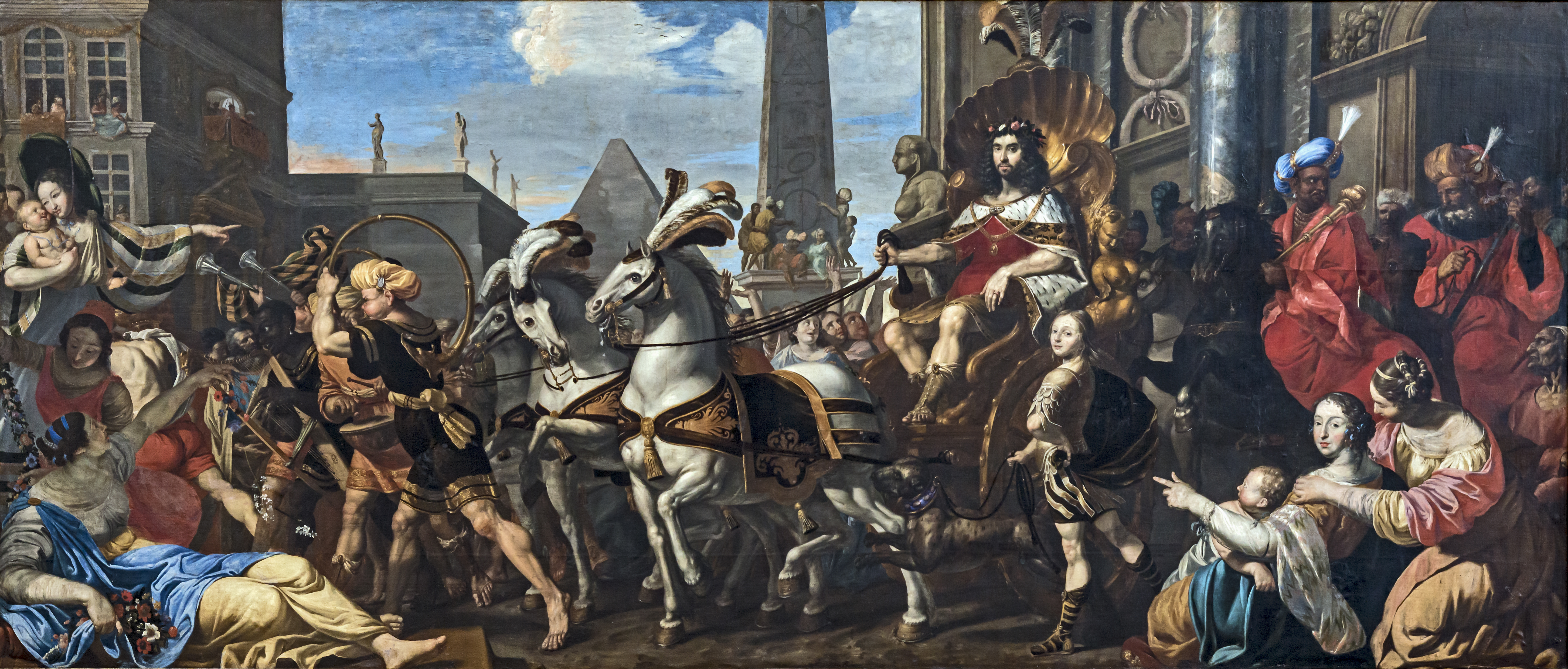 "The triumph of Joseph" (1657), St Stephen's Cathedral of Toulouse. Left part of the transept, under the organ. Oil on canvas; h = 275; the = 775cm. It is a work of the Toulouse painter Hilaire Pader (1607-1677). The artist is represented in Joseph.